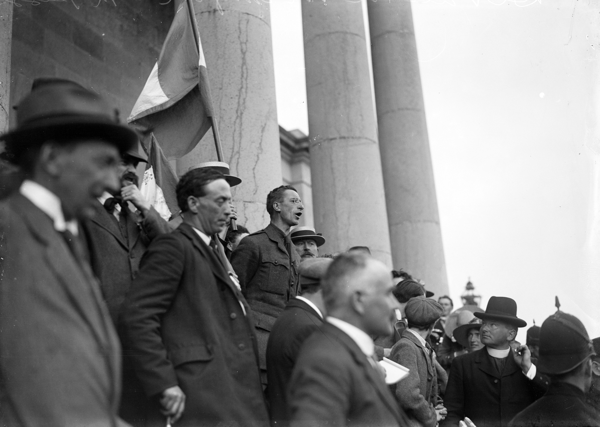 Éamon de Valera in full flight on the steps of Ennis Court House, Co. Clare. Wanted to find out if this was in 1923 (rather than any other year in which the Long Fellow might have been electioneering), and also that he was arrested shortly after this speech. Thanks very much to DannyM8 for proving fairly conclusively that this photo was taken circa Wednesday, 11 July 1917! As usual, any and all information about this photograph will be welcomed with open arms! Photographer: Keogh Brothers, Dublin Date: Circa Wednesday, 11 July 1917 NLI Ref.: Ke 132